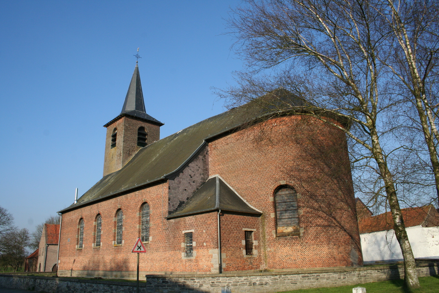 Wasmes-Audemez-Briffoeil (Belgium), the St.Martin church (second part of the XVIIIth century).